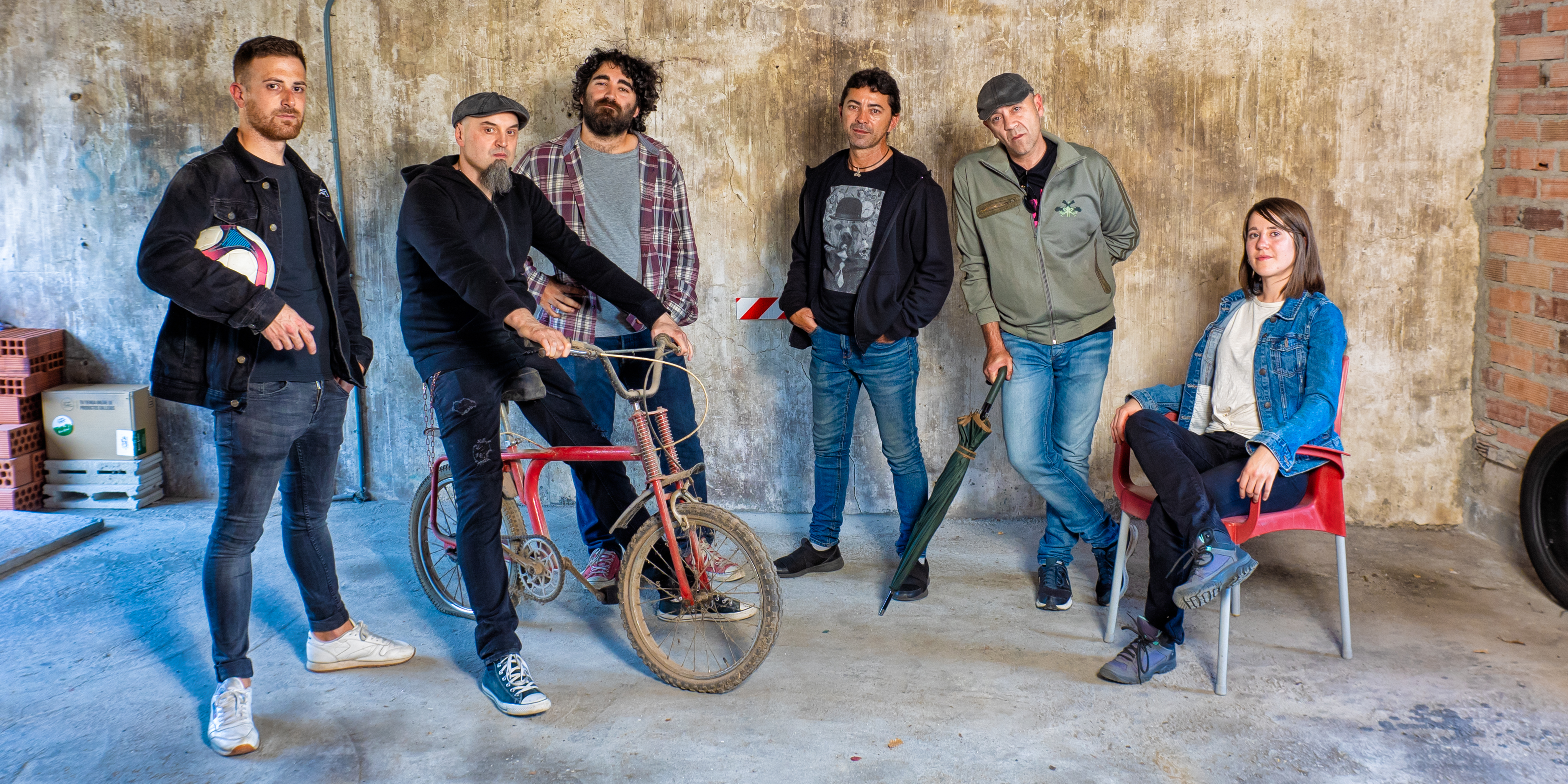 ruxe formacion 2019